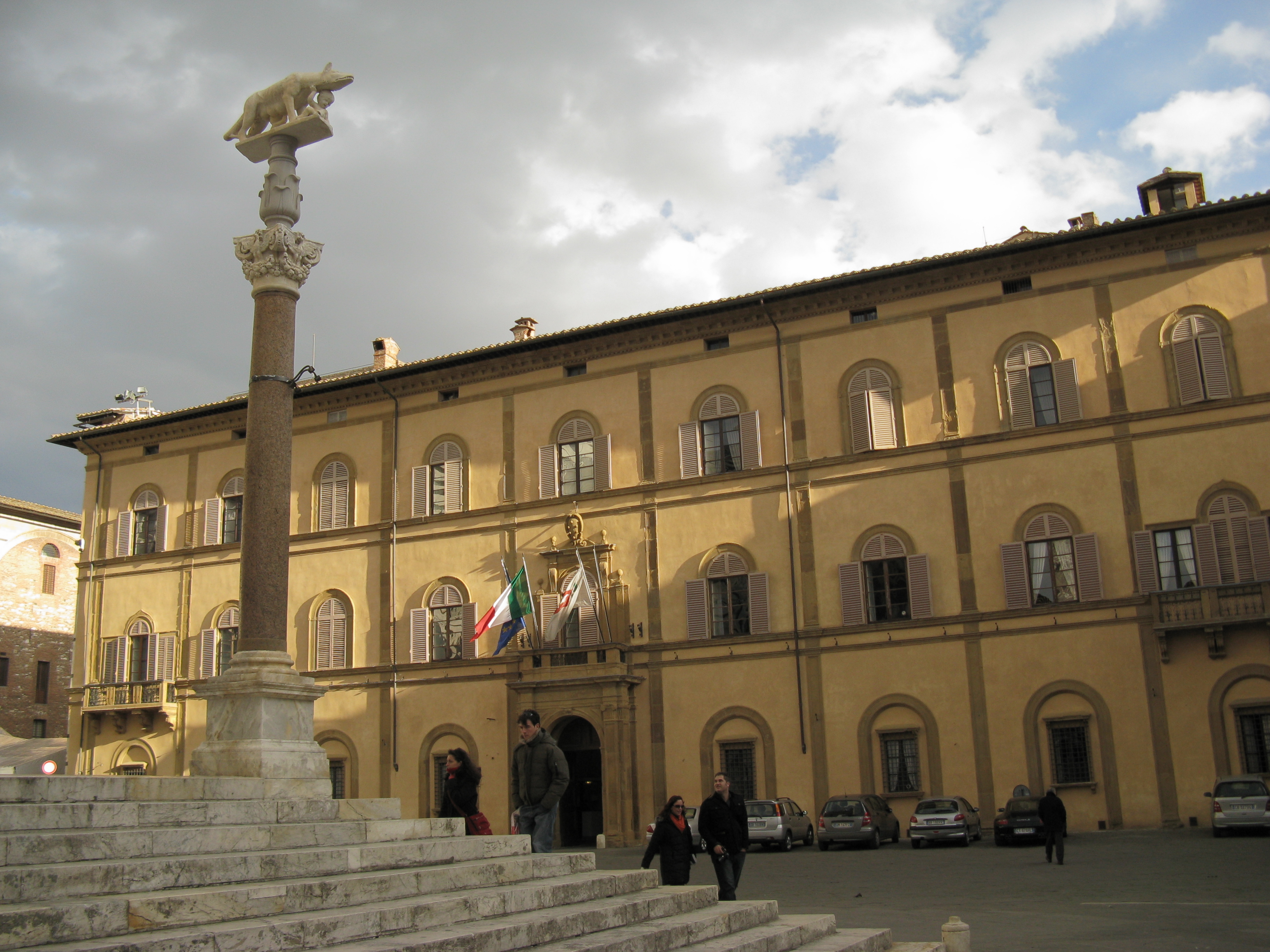 Lupa pillar in the cathedral square of Siena.